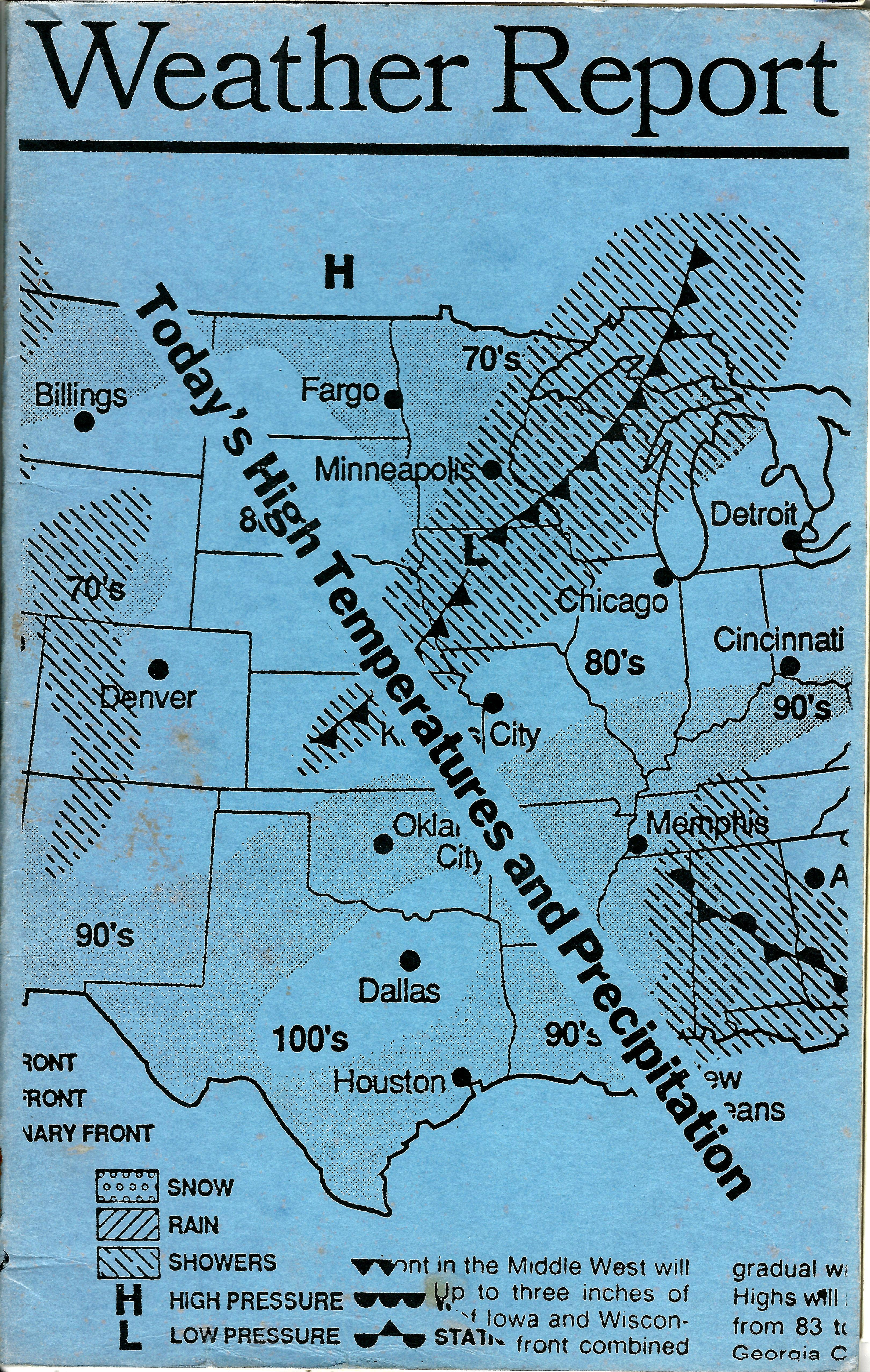 Weather Report